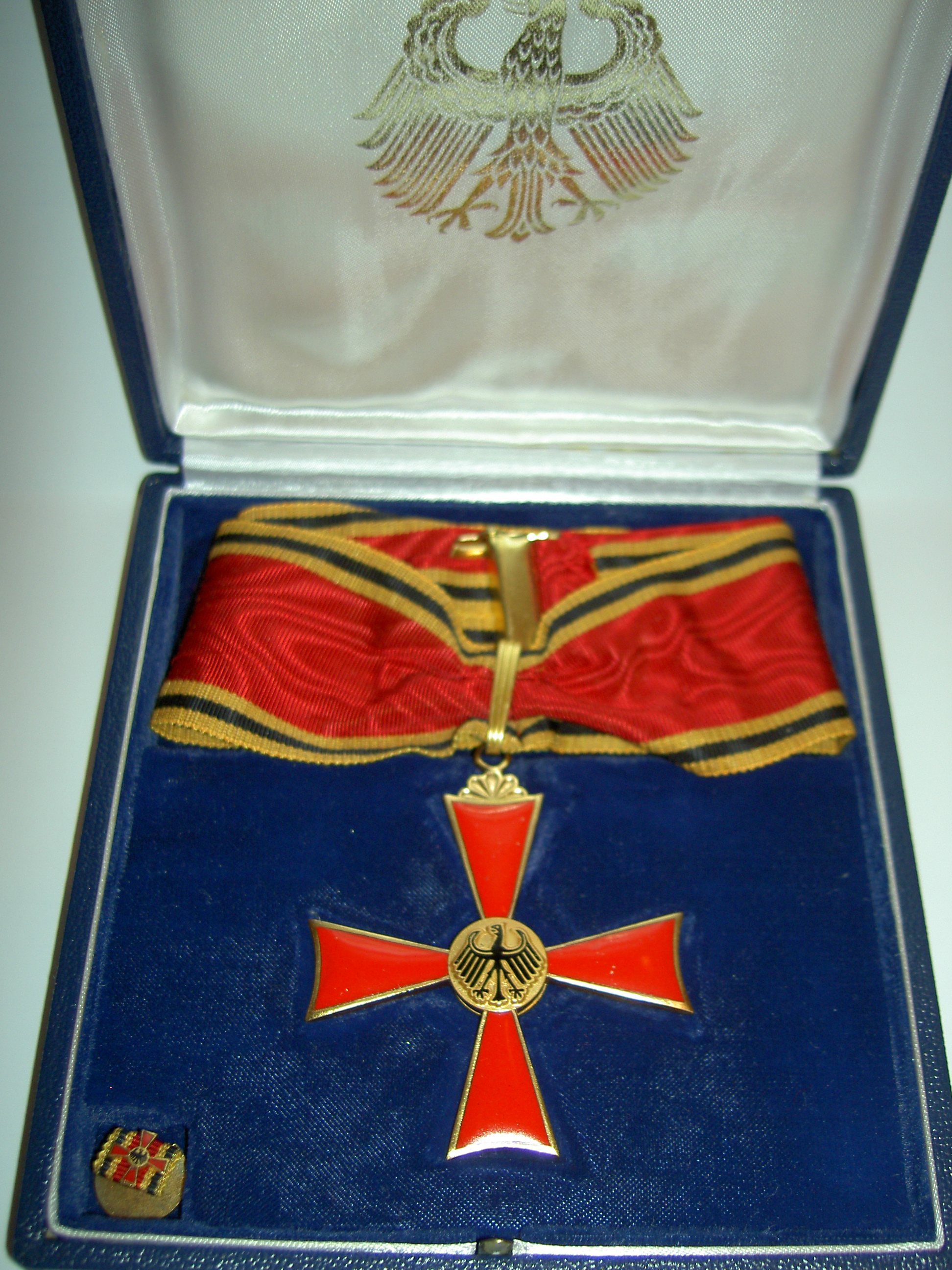 Großes Verdienstkreuz which was awarded to the German historian Paul Franken.